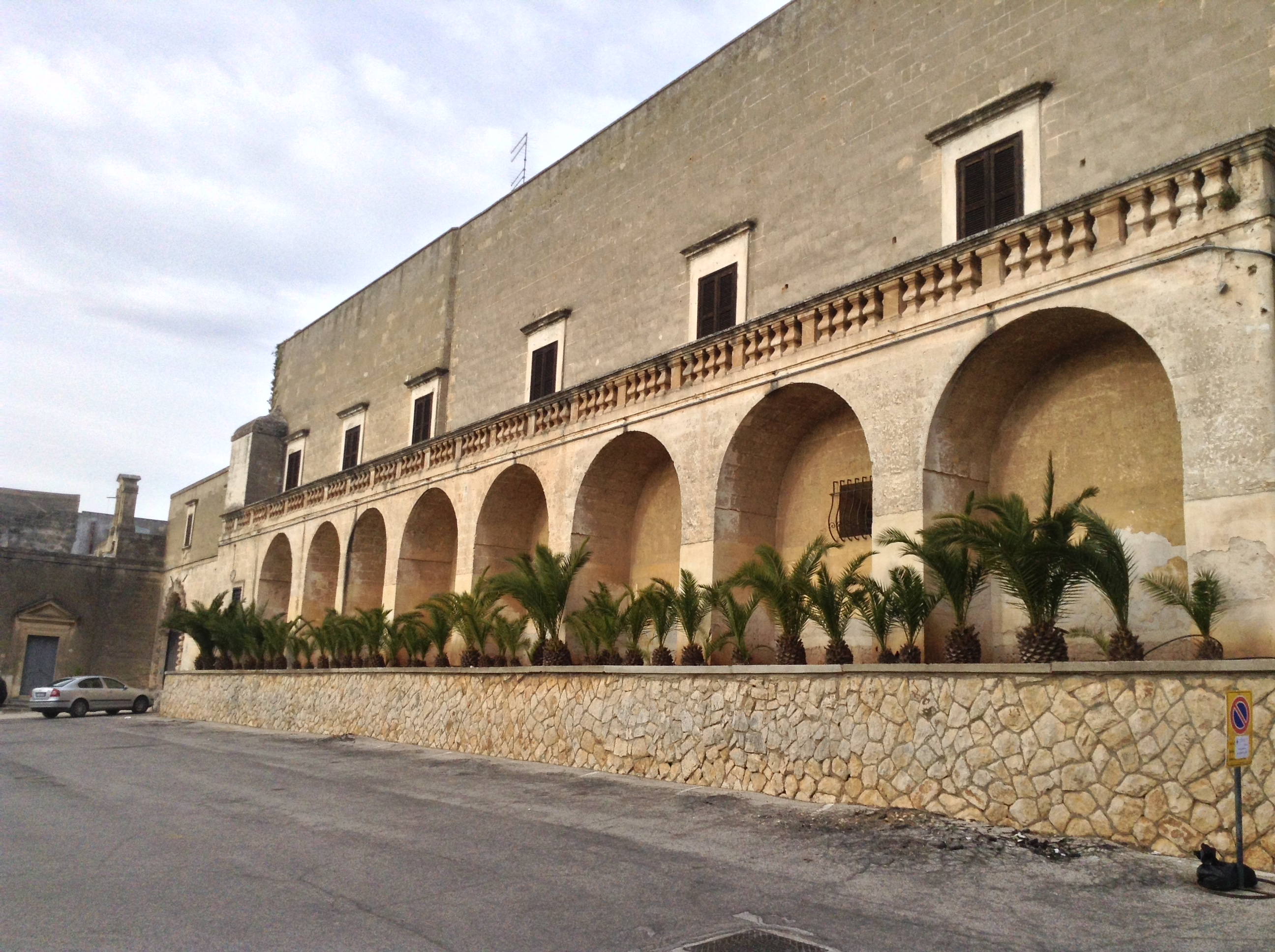 Palazzo Capuzzimati with Chiesa San Gennaro from the 16th century